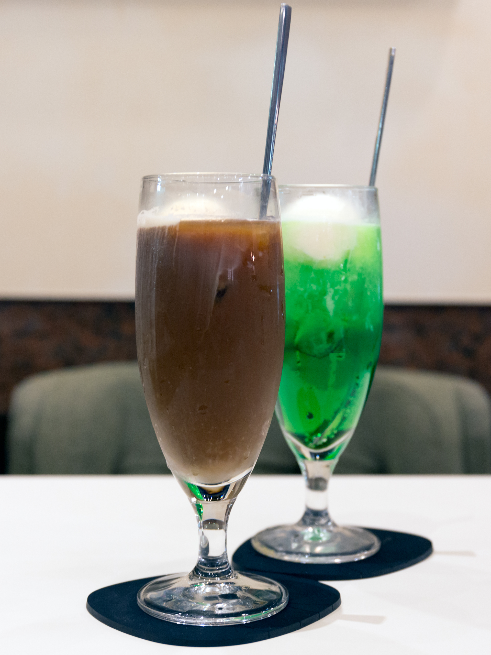 Coffee float and ice cream soda (Ginza Renoir).